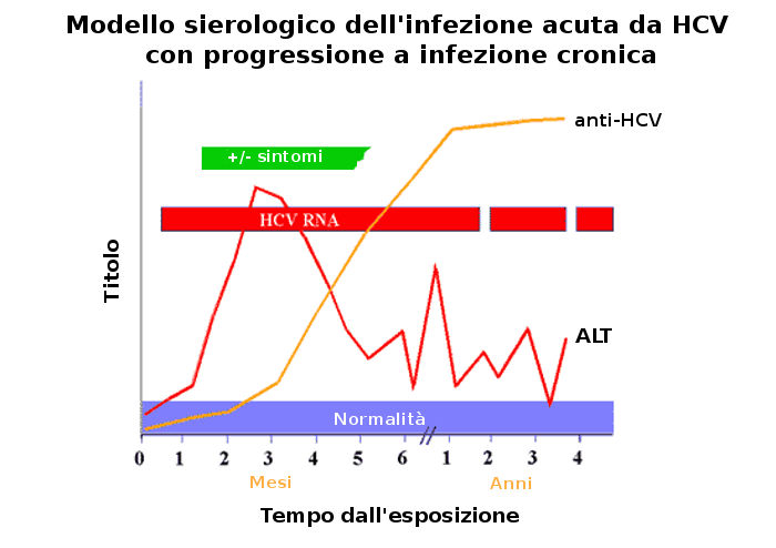 Hepatitis C: Slide Set: 1 | CDC Viral Hepatitis